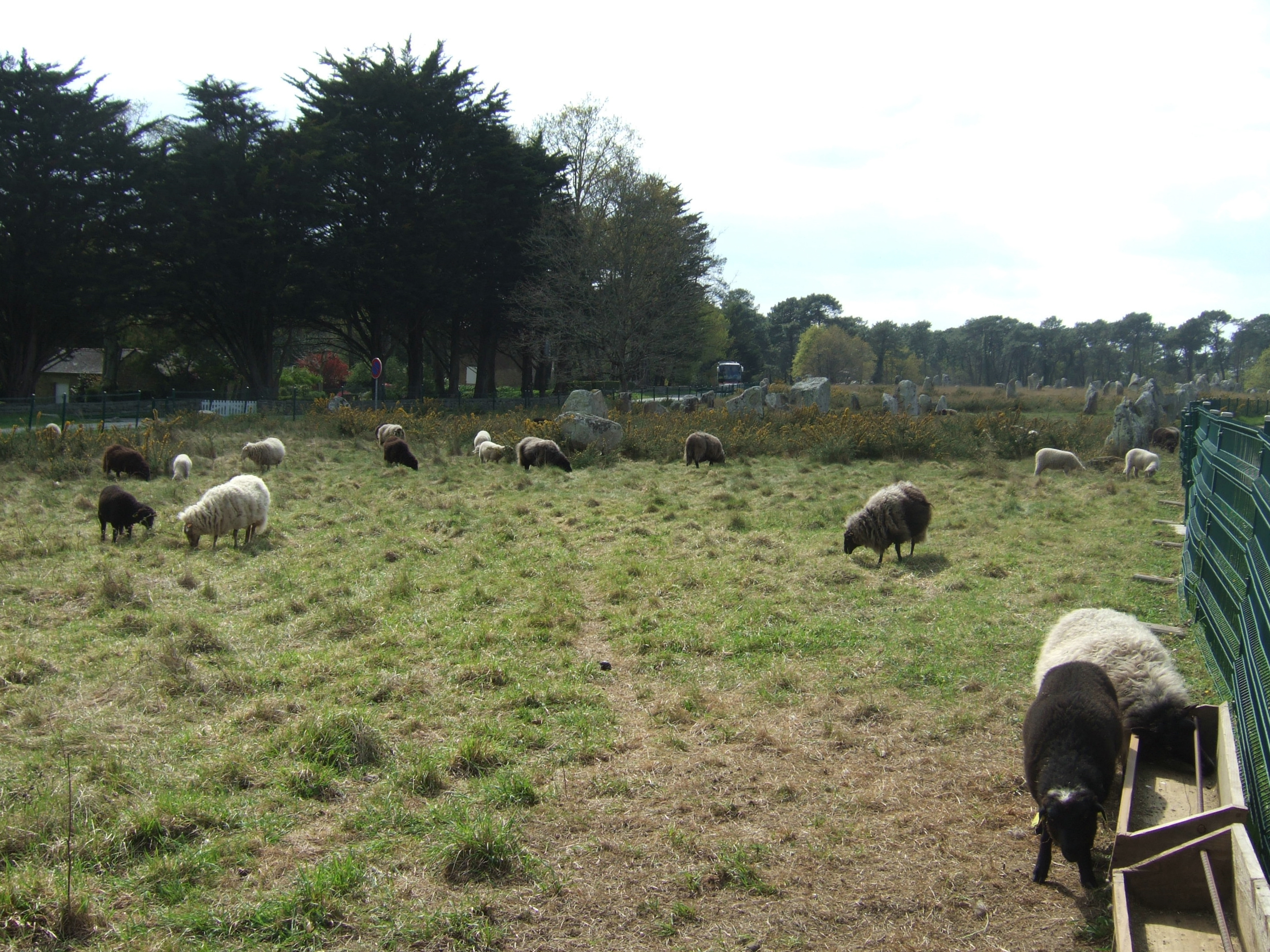 Sheep grazing in the fenced off Kerlescan alignment near Carnac Taken by me